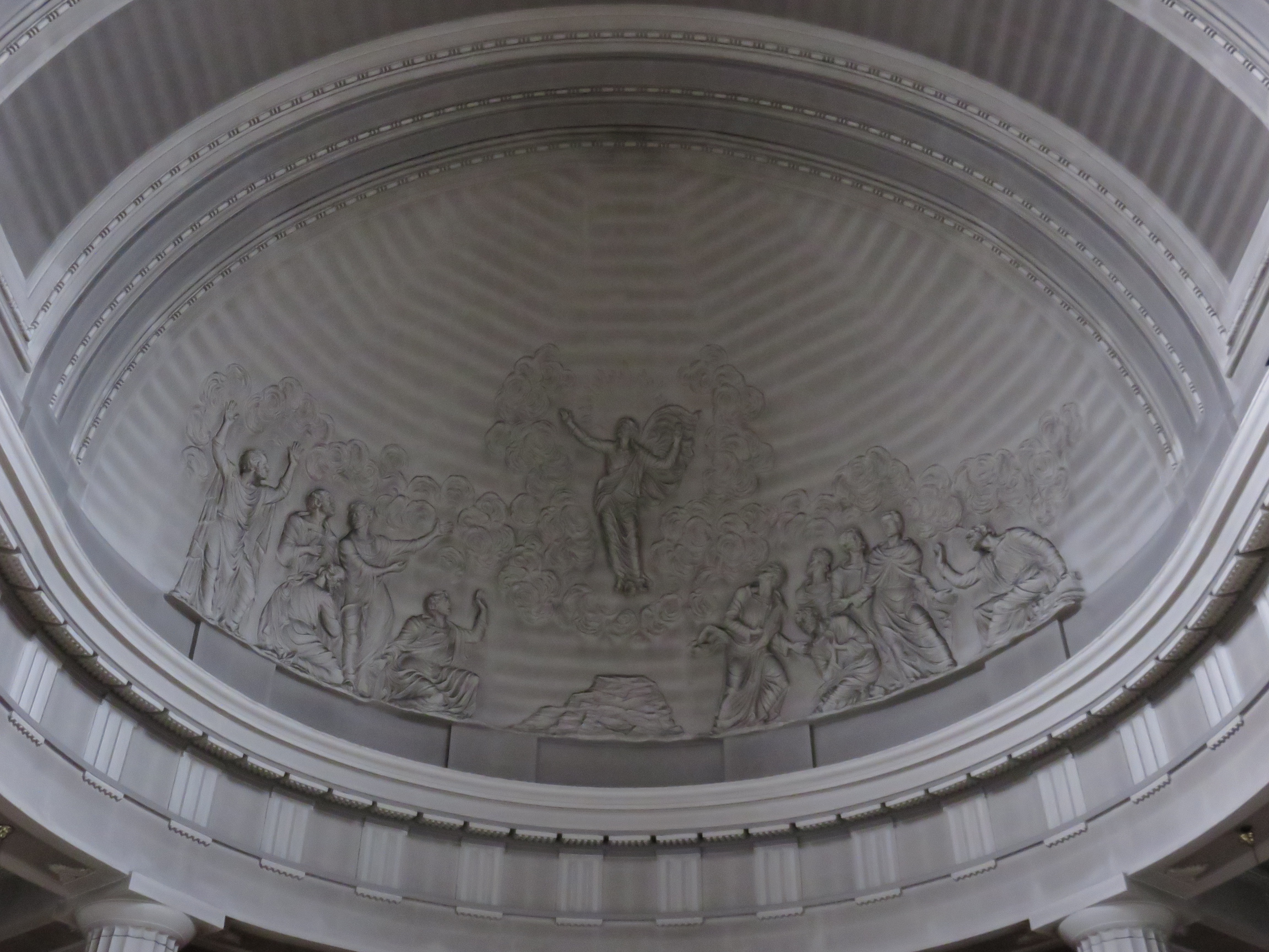 Apse of St. Mary's Pro-Cathedral in 2018